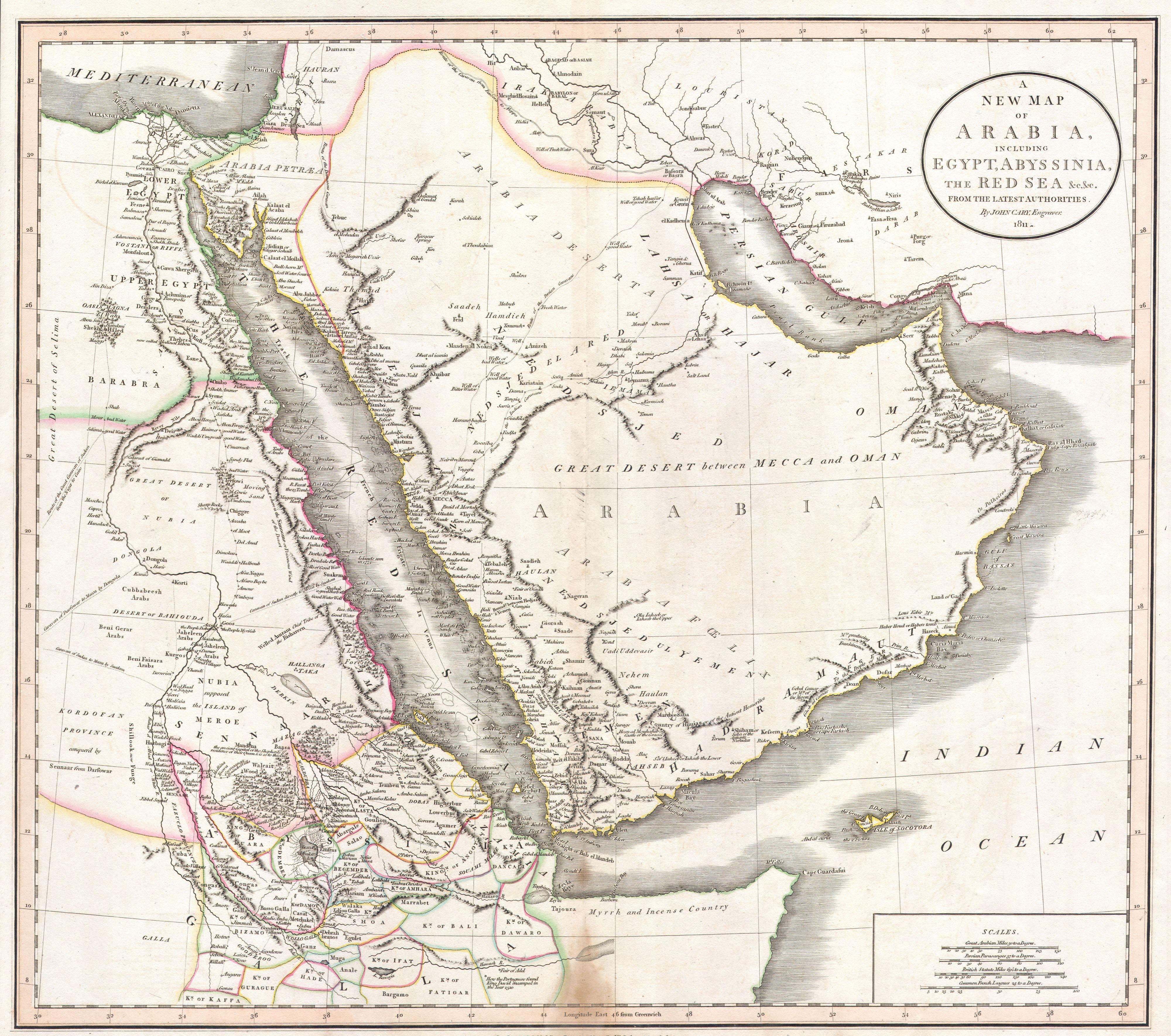 This is a stunning 1811 map of Arabia, Egypt and Abyssinia ( Ethiopia ) by English Cartographer John Cary. A smorgasbord of wonderful detail including historical notes, caravan routes, the locations of desert wells and oases, nautical routes, and tribal kingdoms. Contains such notations as “Here the Portuguese found King David encamped in the Year 1520” , referring to the Portuguese embassy to the King of Ethiopia; “Myrrh and Incense Country” on the Horn of Africa; and “Supposed Island of Meroe”, referring to the ancient pyramid building culture in the heard of what is today Sudan. Also of interest is the route of the Frigate 'La Venus', which charted the Red Sea, the Persian Gulf, and the Indian Ocean before disappearing in a hurricane with all crew and cargo in 1788. Dated 1811.